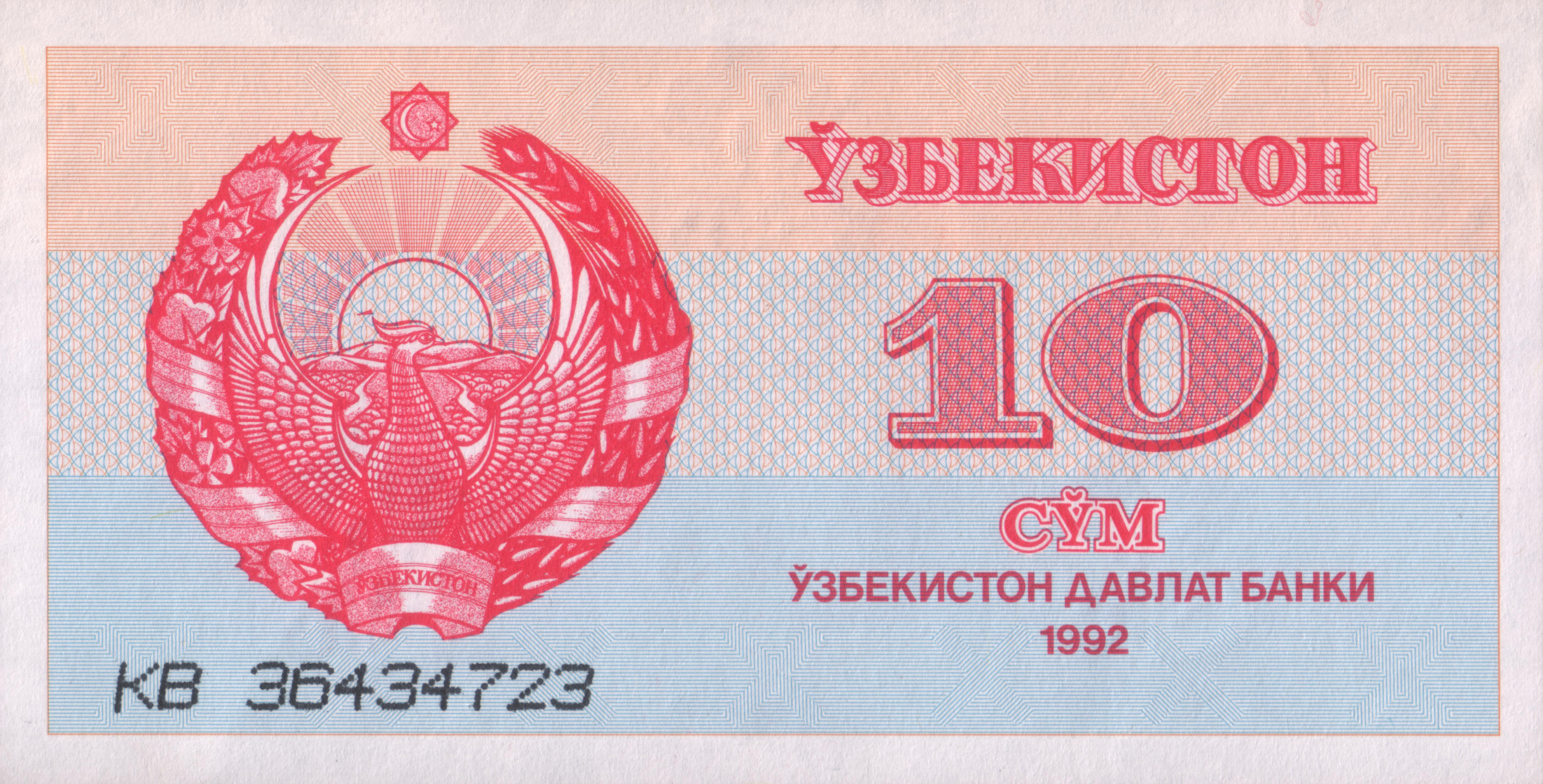 10 sum of Uzbekistan (1992)